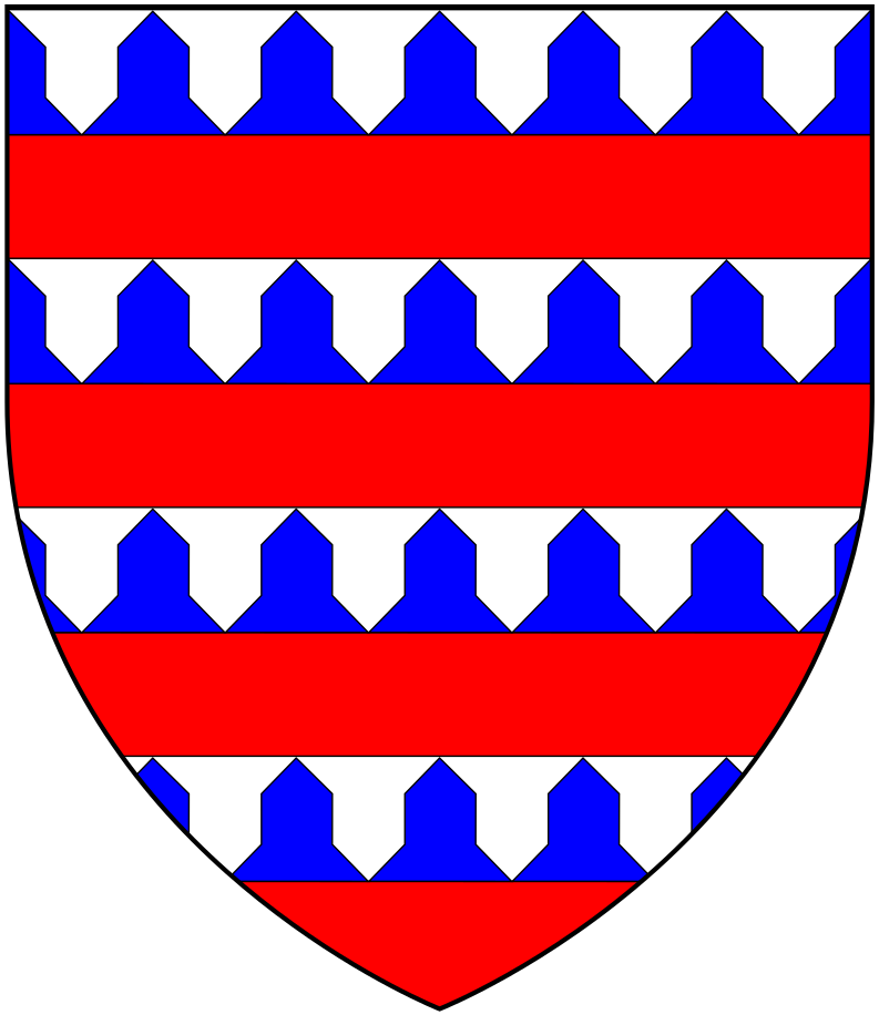 Arms of Beaumont of Youlston, Shirwell, Devon: Barry vair and gules, as seen on the monument in Gittisham Church, Devon, to Henry Beaumont (d.1590/1), possibly restored (See File:BeaumontWillingtonArmsGittishamDevon.JPG, quartered, one quarter barry of 7, the other barry of 8). The Beaumont arms surviving on the western arch of the Gatehouse to Dunster Castle in Somerset, erected by Sir Hugh Luttrell (d.1521), shows barry of 8. (See File:LuttrellHeraldicPanel Circa1500 Gatehouse DunsterCastle Somerset.PNG). The number of bars is determined by the shape of the shield, as the proportions of a unit of vair is fixed. Six bars specified (Barry of six vair and gules) in Vivian, Heralds' Visitations of Devon, 1895, p.65, in which given as Vairé azure and argent, over all two bars gules. Pole gives the arms as: Barry of 6 verry & geules (sic) Pole, Sir William (d.1635), Collections Towards a Description of the County of Devon, Sir John-William de la Pole (ed.), London, 1791, p.469. These barry arms can be seen on the monument in Atherington Church, Devon, of Sir John Bassett (d.1529)